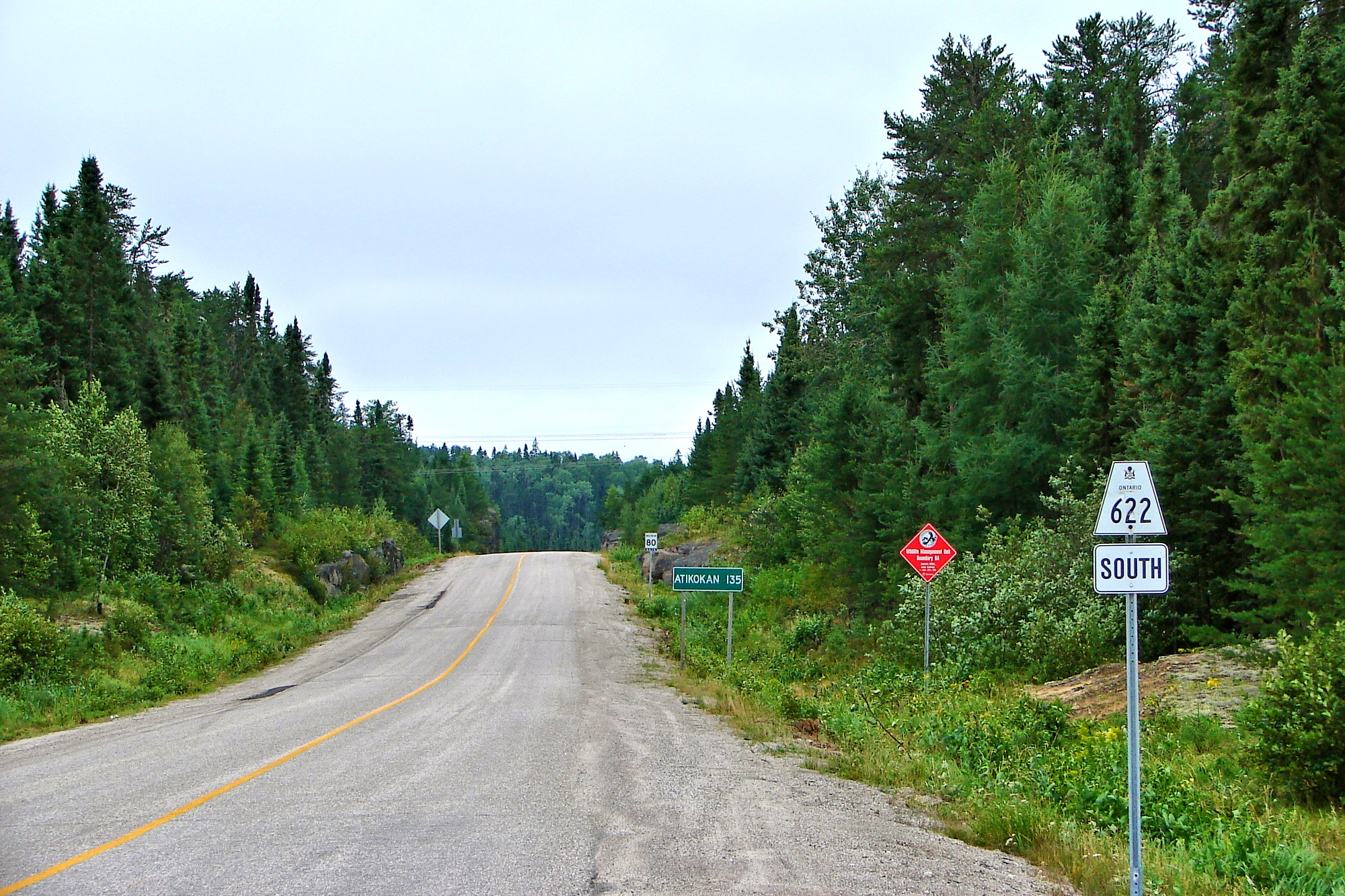 Highway 622 at the intersection with Highway 17, Ontario, Canada